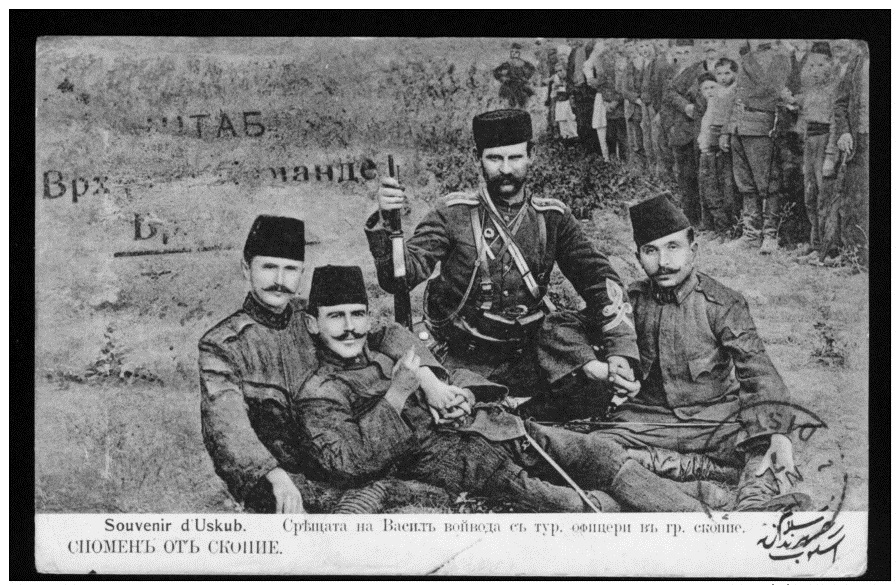 Vasil Adzhalarski and Turkish Officers